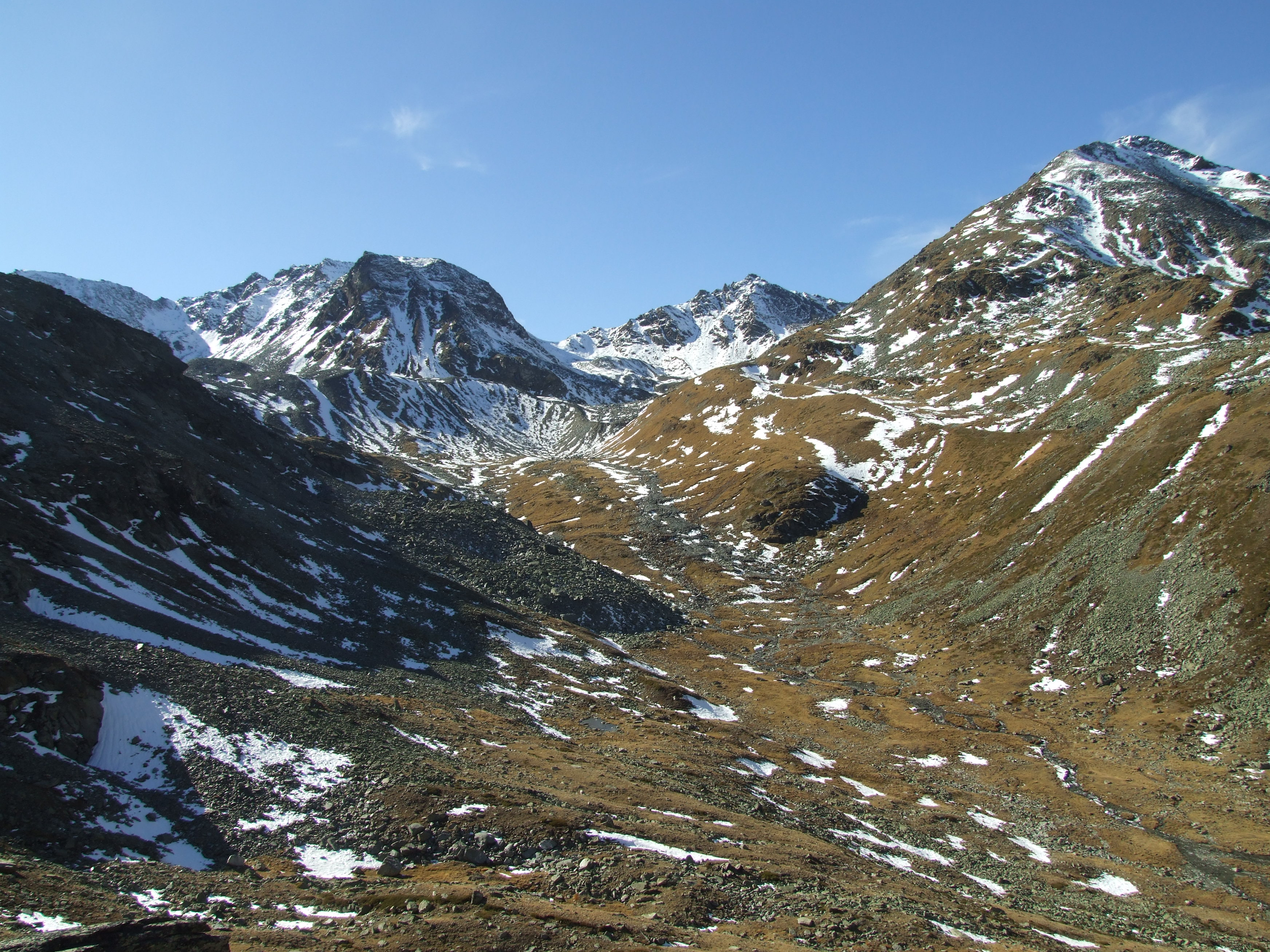 Jungtal with Rothorn, Jungpass and Furggwanghorn. Valais, Switzerland.